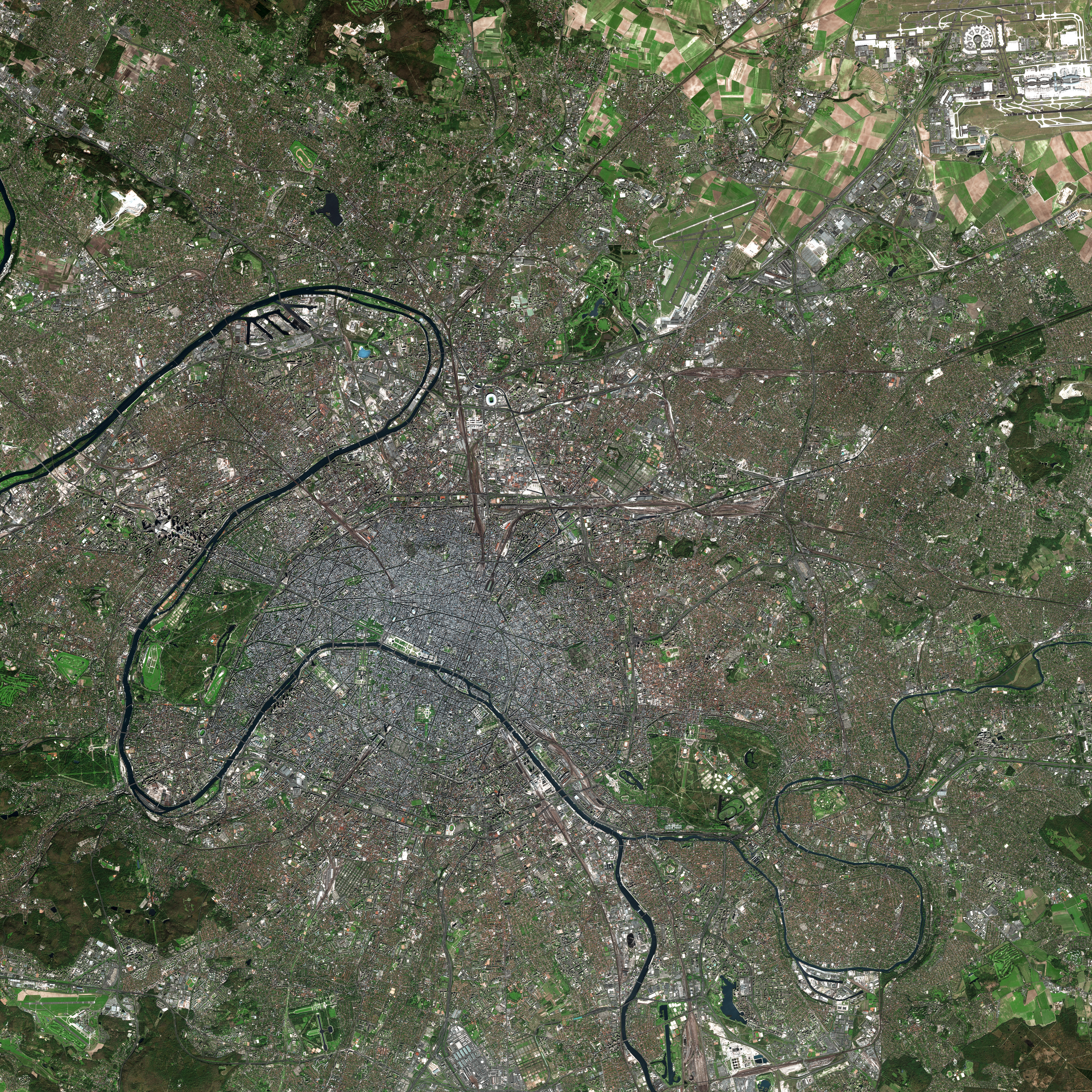 Paris by SPOT Satellite